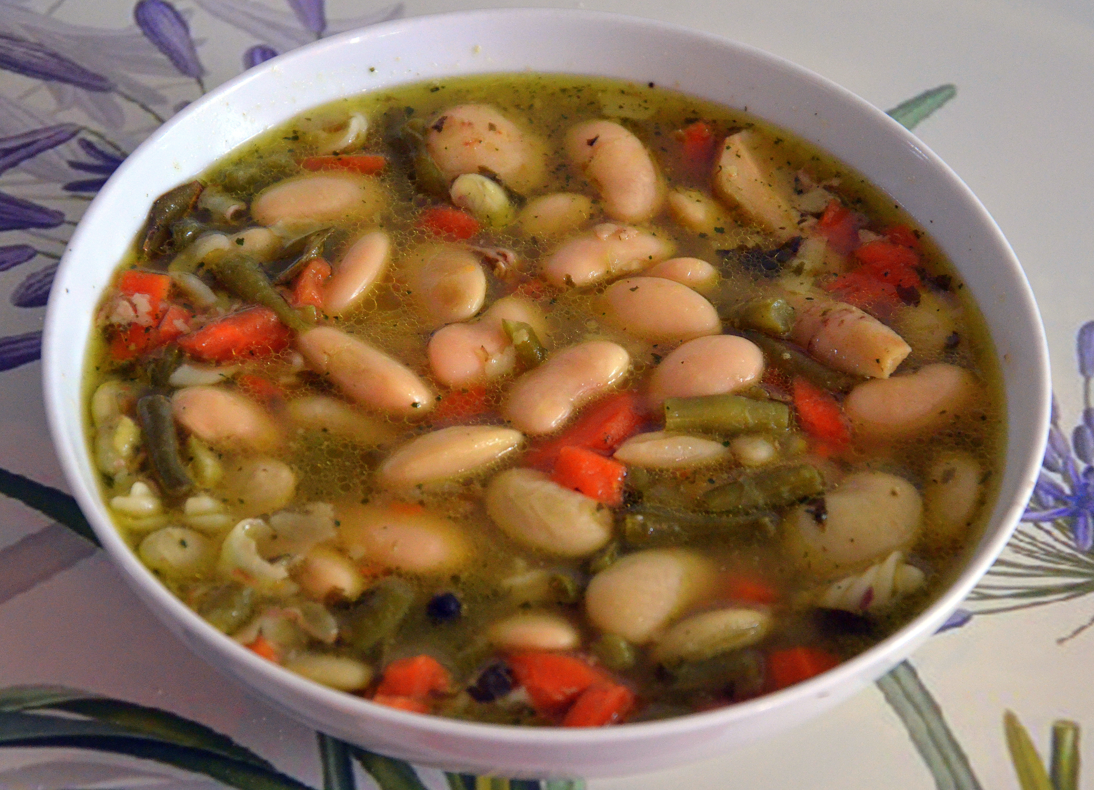 Bohnensuppe